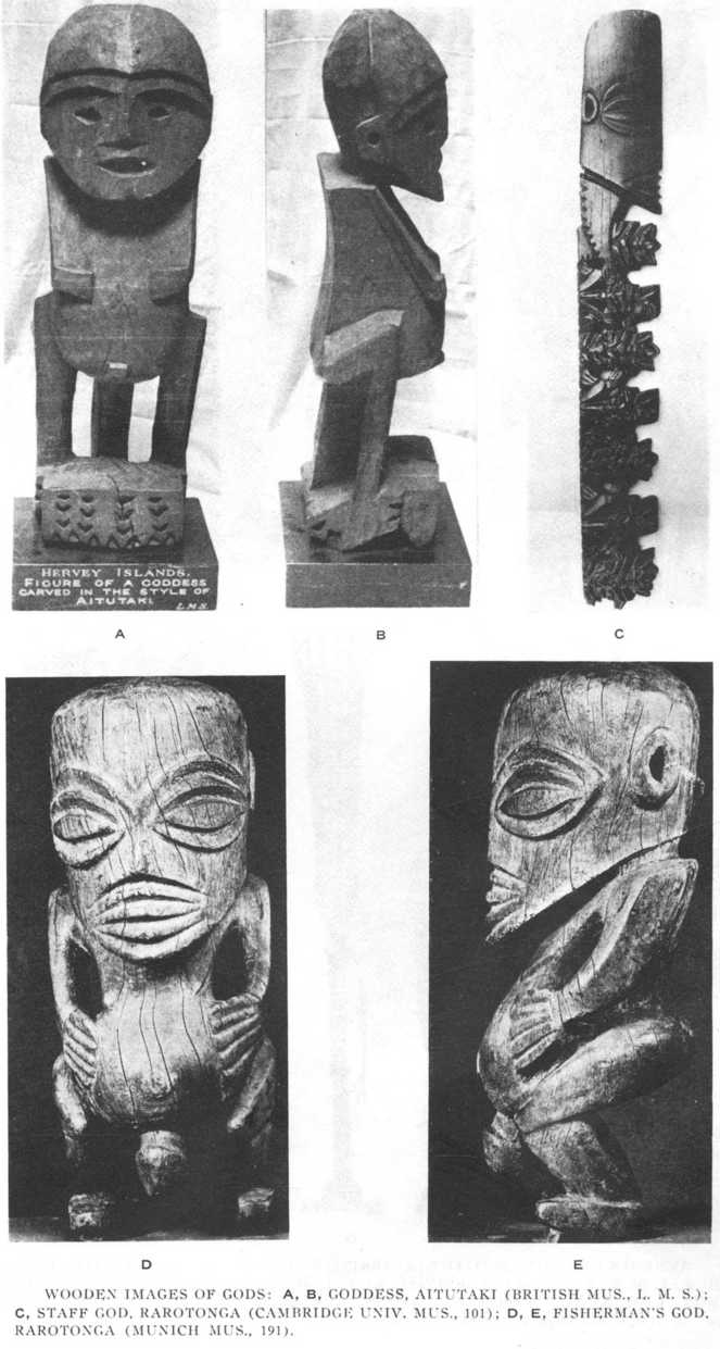 Wooden Images of Gods: A, B, Goddess, Aitutaki (British Museum, L.M.S.); C, Staff God, Rarotonga (Cambridge University Museum, 101); D, E, Fisherman's God. Rarotonga (Munich Museum, 191).